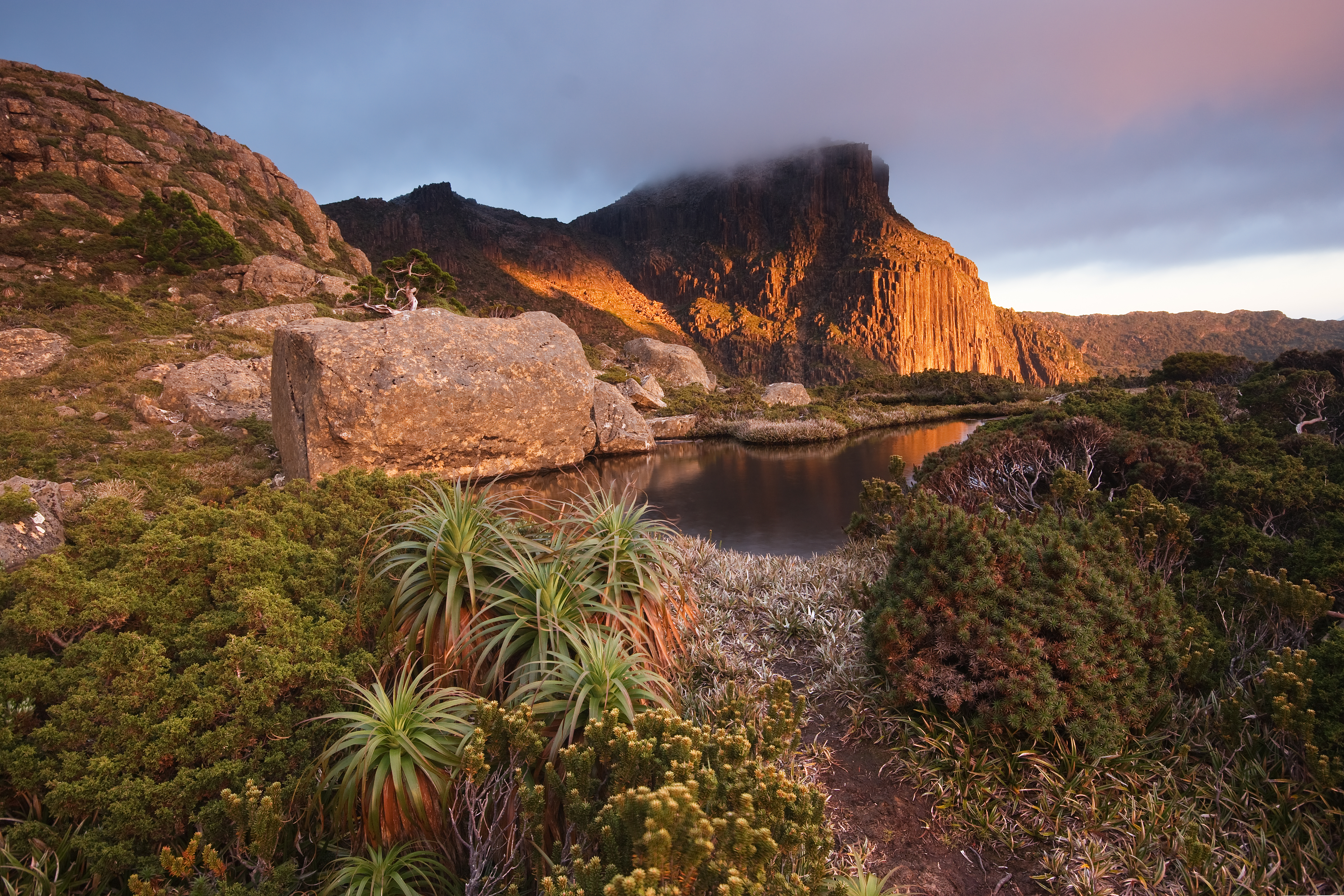 Mt Anne (capped in cloud) from High Shelf Camp, Southwest National Park, Tasmanian Wilderness World Heritage Area, Tasmania, Australia.